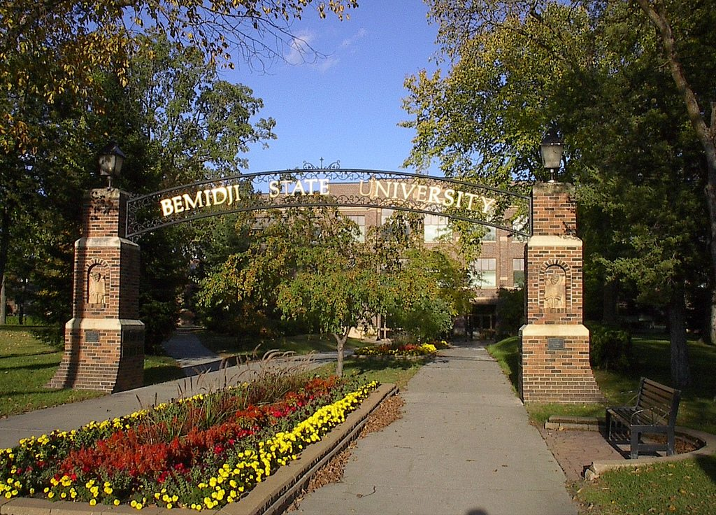 Panoramic Photos of Bemidji State University 11/2006